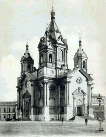 The Annunciation Church in St Petersburg (1843-49).It was destroyed by the Bolsheviks in the 1920s, like the rest of Thon's churches in the Russian capital.